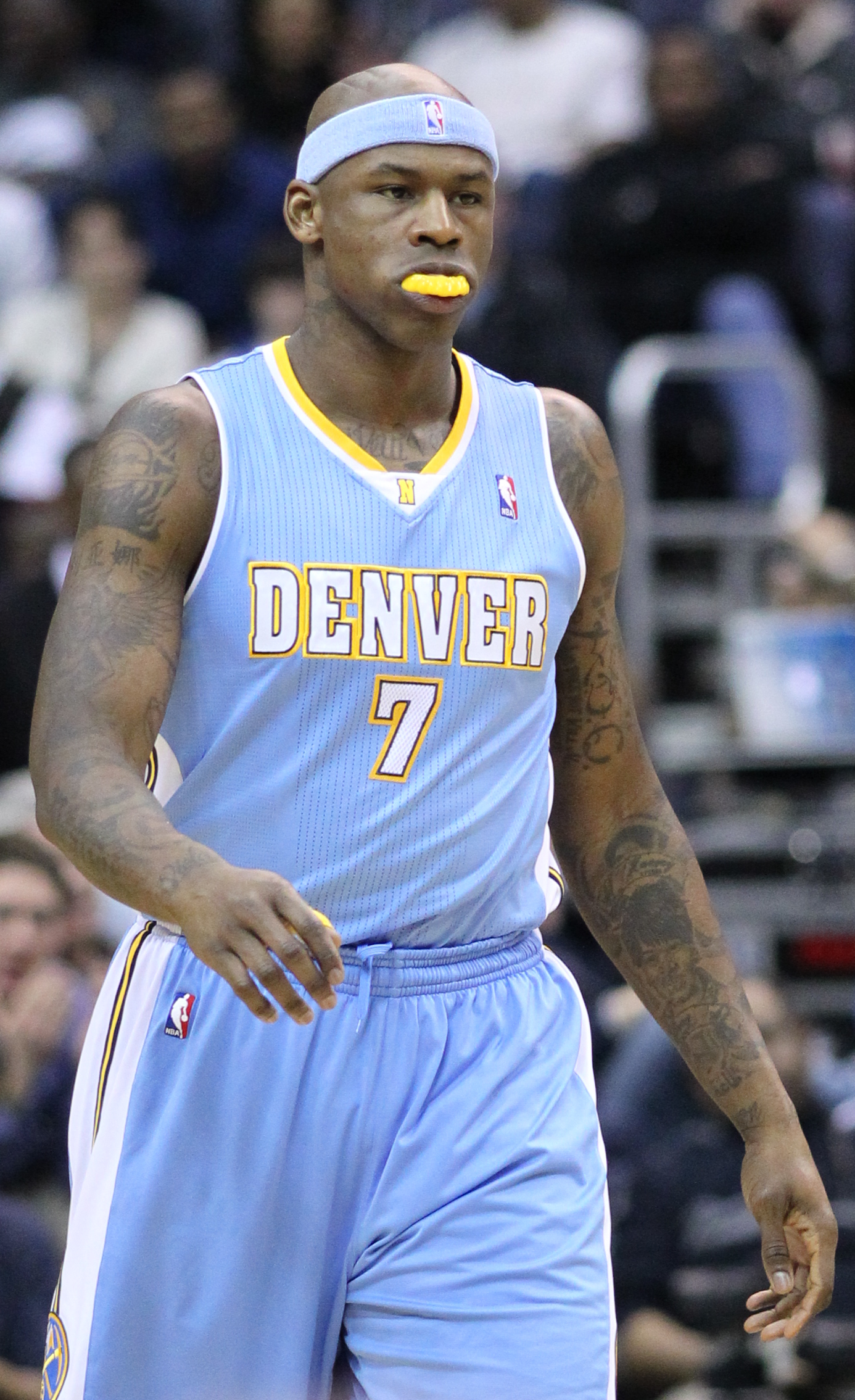 Washington Wizards v/s Denver Nuggets January 25, 2011